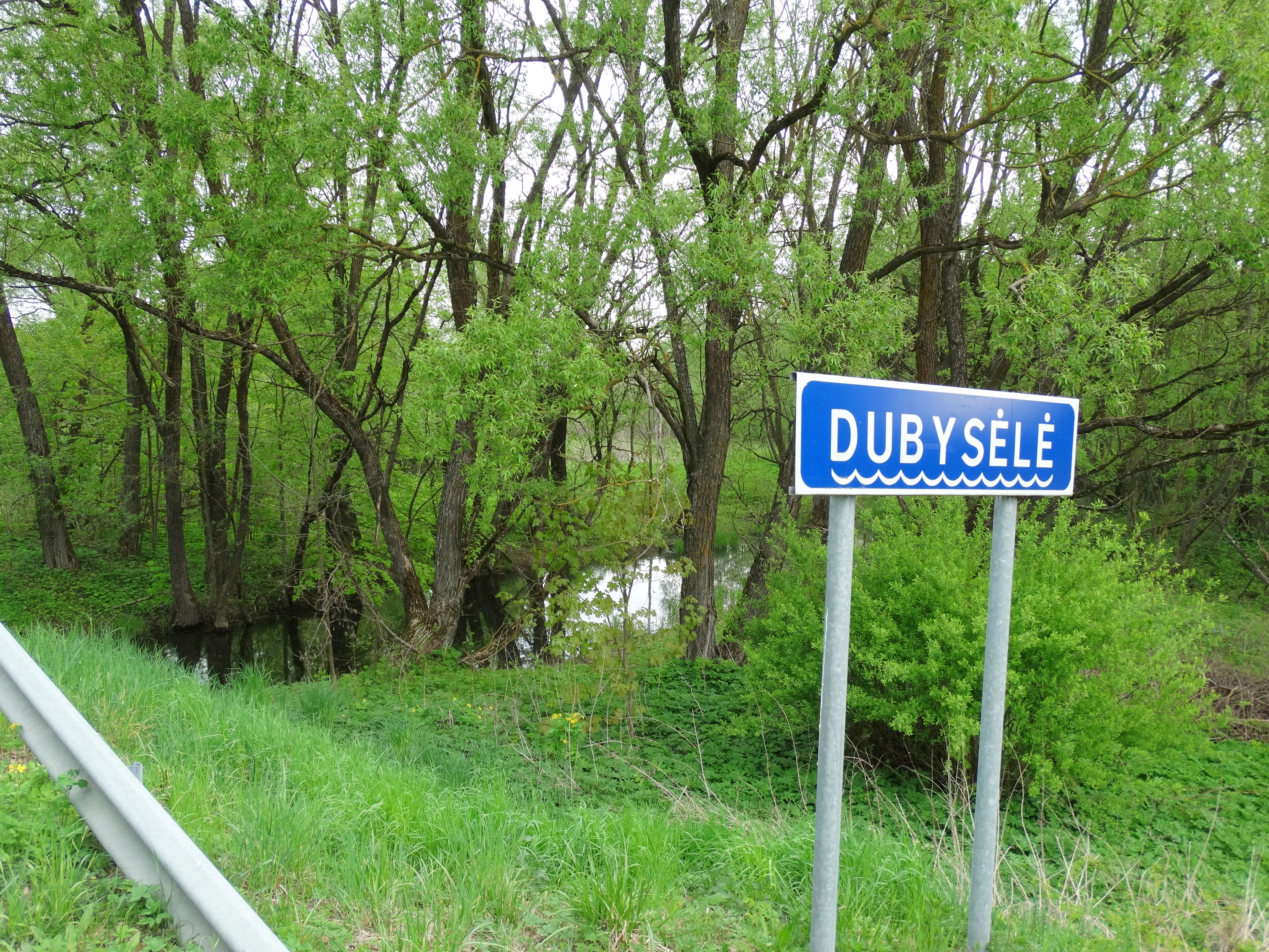 Dubysėlė stream, Padubysys, Pakruojis district, Lithuania